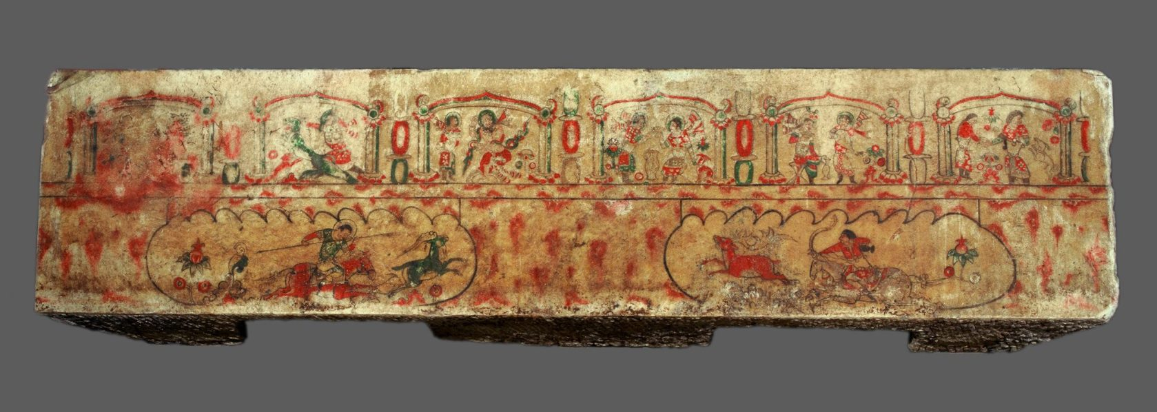 Sarcophagus Platform Panel. From a tomb dated to the Sui dynasty, twelfth year of Kʻai-huang (592 AD). Unearthed in 1999 from the tomb of Yü Hung at Wang-kuo village in Tʻai-yüen, Shan-hsi. Marble with ink and pigments, H. 21 3/8 in., W. (exterior) 97 1/4 in., W. (interior) 81 1/8 in., D. 8 1/4 in. Collection of the Shan-hsi Museum.